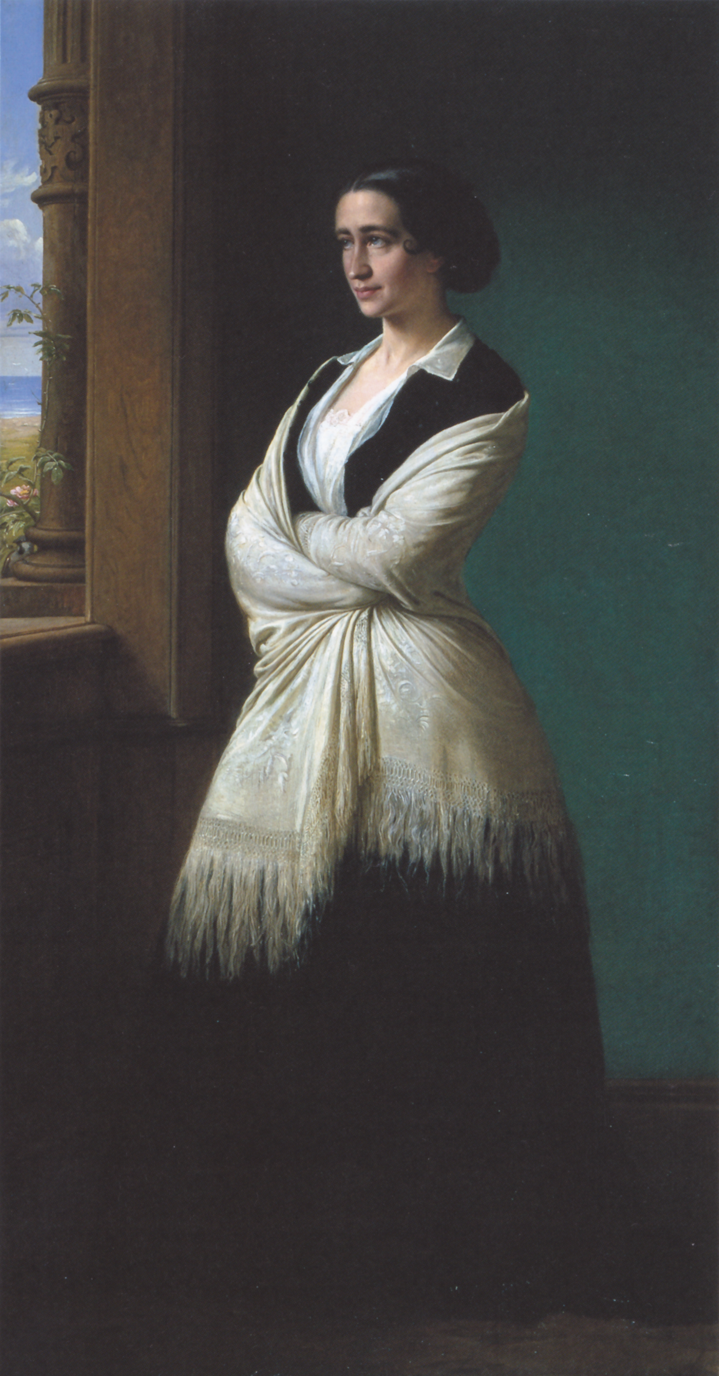 Johanne Louise Heiberg was the leading Danish actress of her day, and she dictated her posture and dress in the portrait. After Marstrand had died, the fashion of women's gowns changed, and she summoned the painter Carl Bloch to alter the length of her skirt on the painting. A copy of this work, made by Frants Henningsen, is situated at the Royal Danish Theater in Copenhagen.